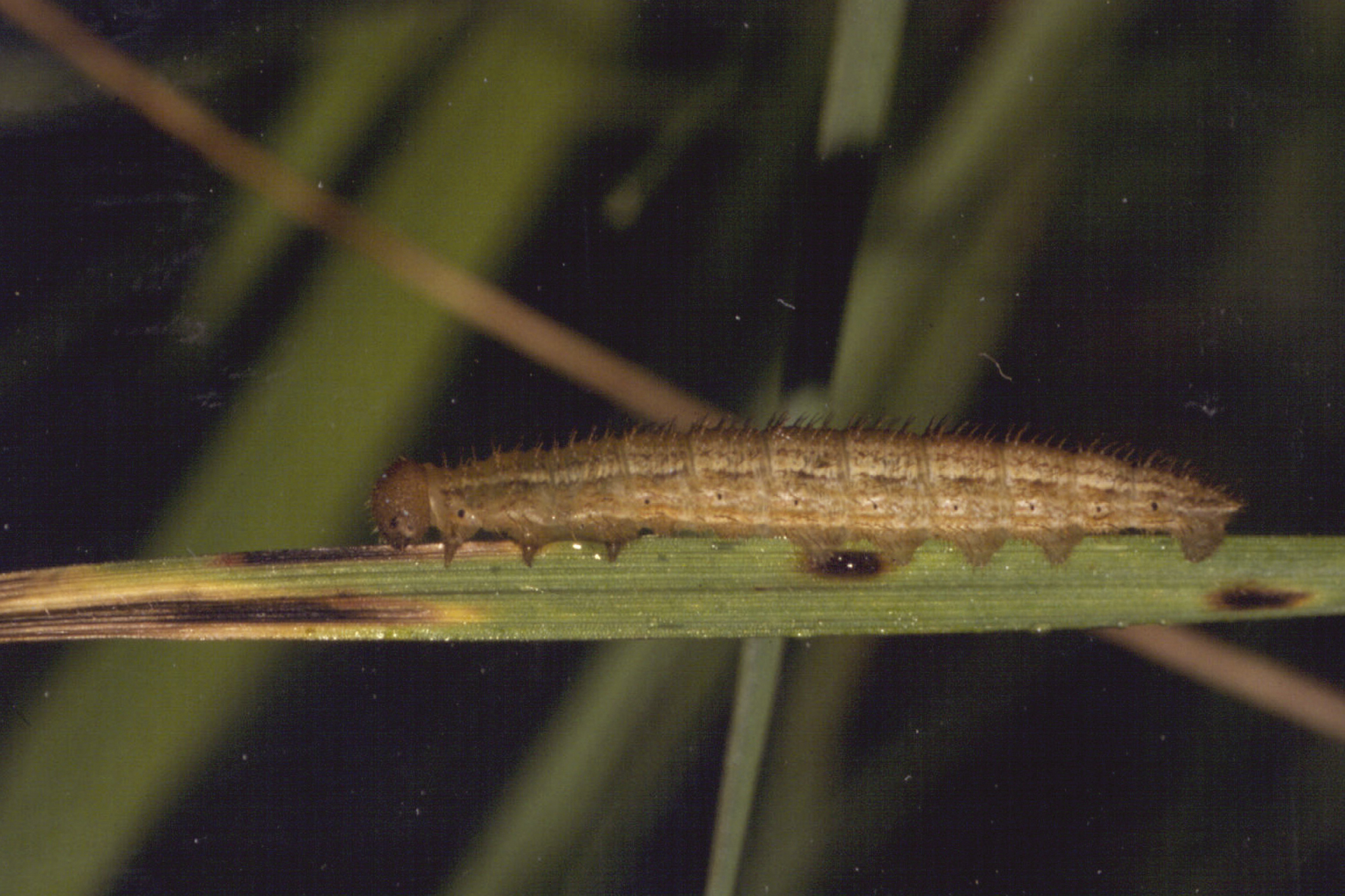 Scotch Argus (Erebia aethiops) caterpillar